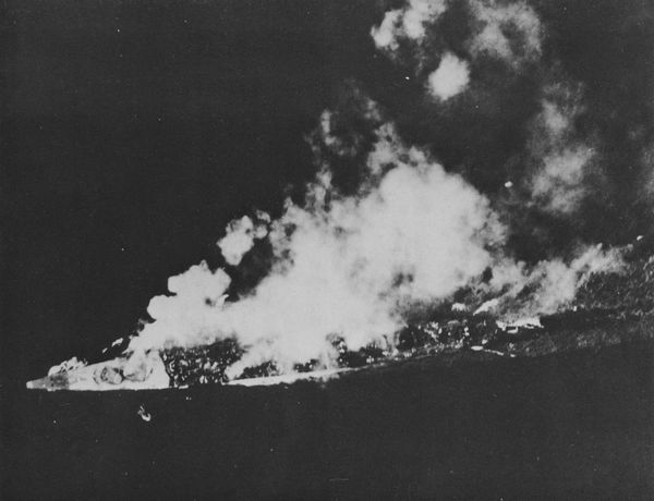 The Japanese destroyer Suzutsuki under attack by U.S. Navy aircraft on 7 April 1945. Her bow was later torn off by a torpedo from aircraft of Task Force 58, but she survived and returned to Sasebo, Japan, by steaming in reverse the whole way.